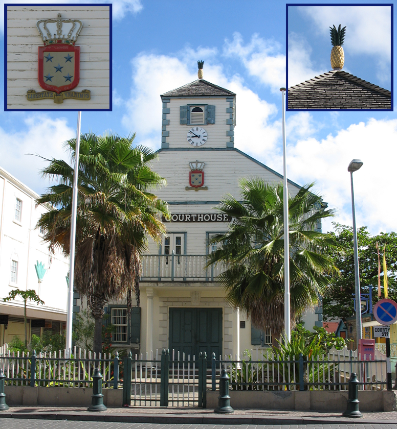 Courthouse on Frontstreet in Philipsburg, Sint Maarten (Netherlands Antilles)